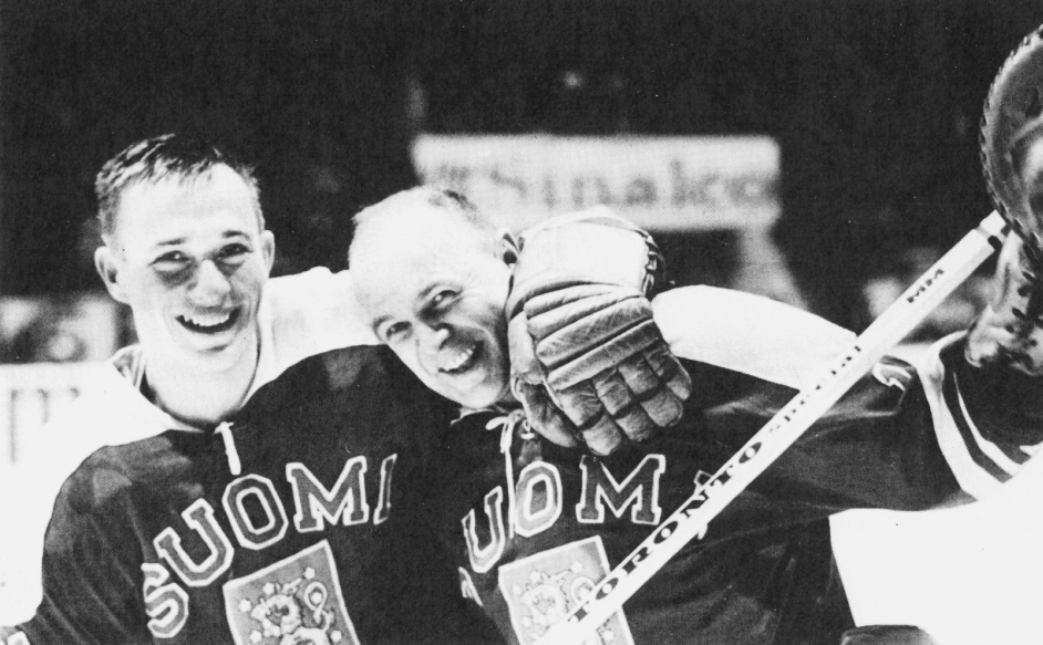 Photograph of the Finnish ice hockey players Matti Keinonen and Juhani Lahtinen after a game against Sweden.